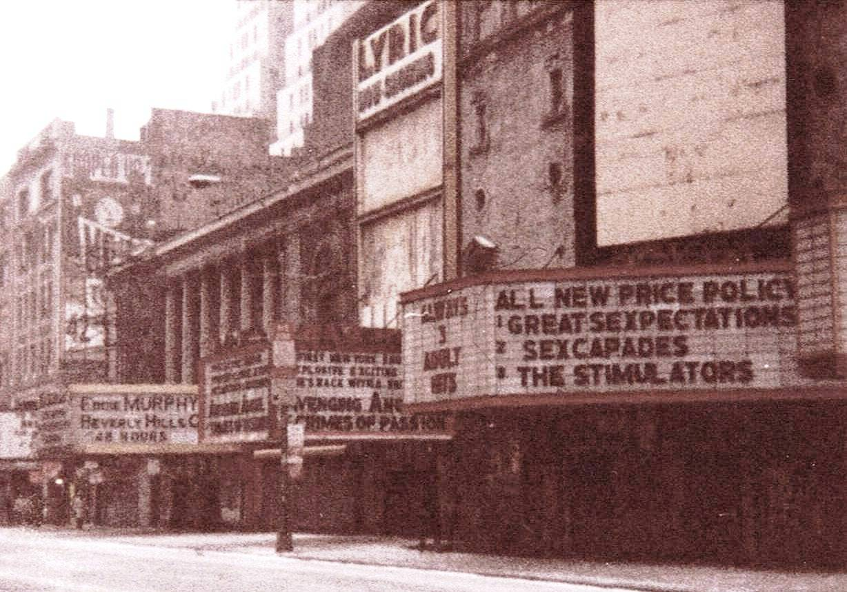 42nd St., Manhattan in disrepair in 1985, before renovation.